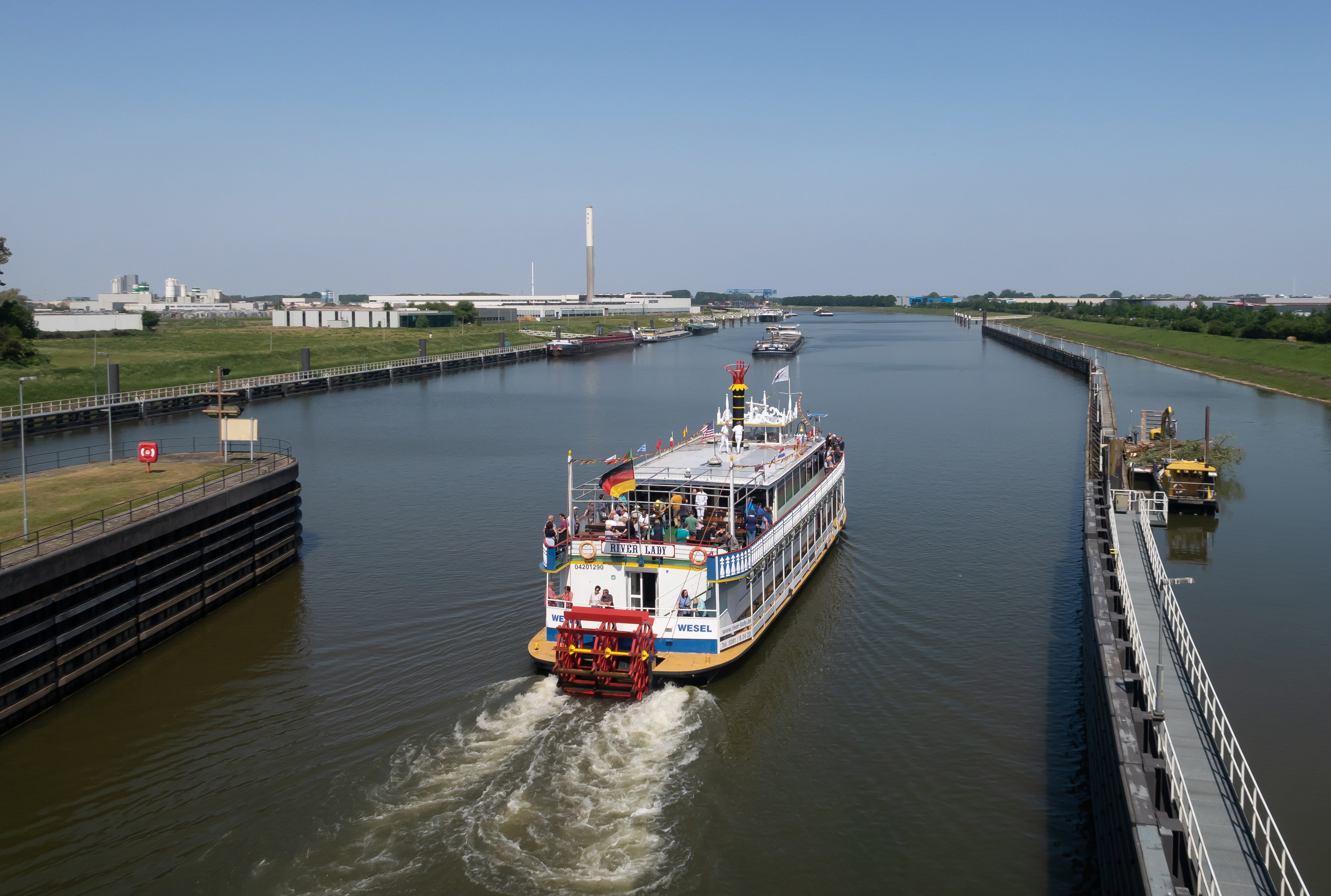 bij Tiel, het Amsterdam-Rijnkanaal